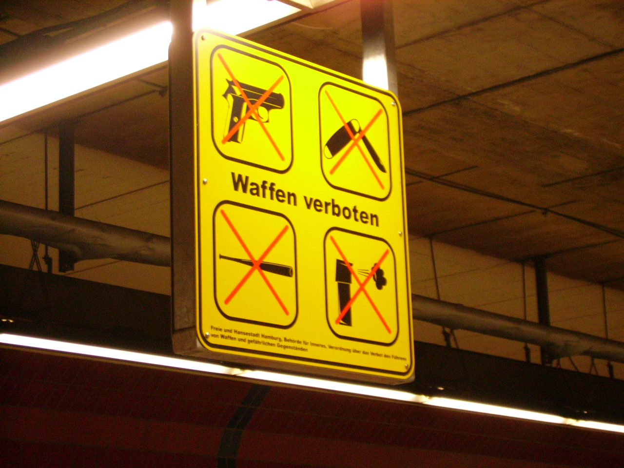 Reeperbahn railway station, detail weapon ban area, Hamburg, Germany